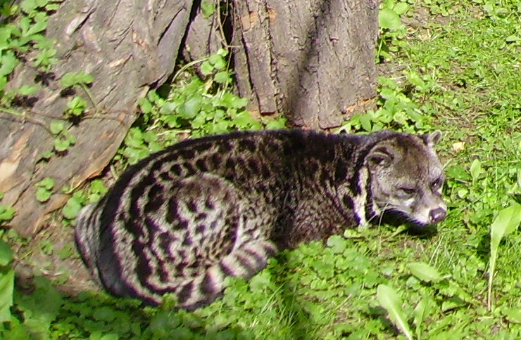 Malayan Civet